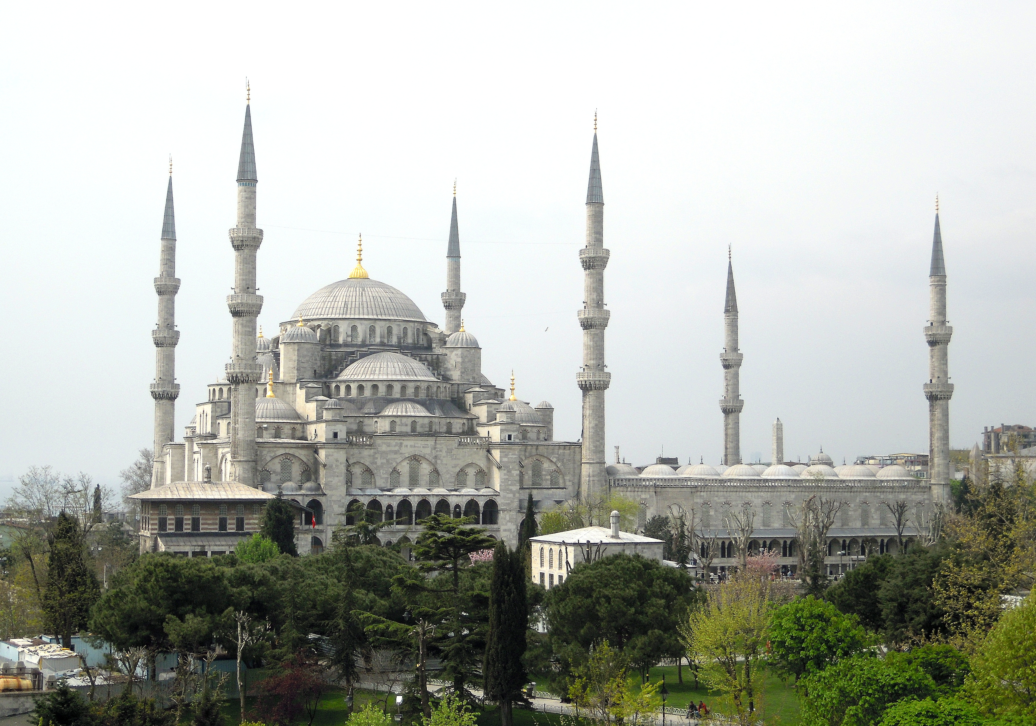 The Sultan Ahmed Mosque or Sultan Ahmet Camii or the Blue Mosque in Istanbu, Turkey